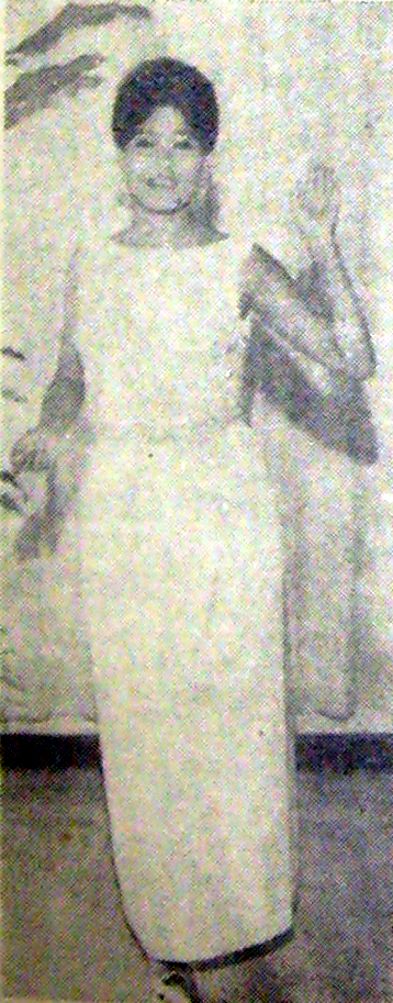 Rima Melati at a New Years party, late 1963